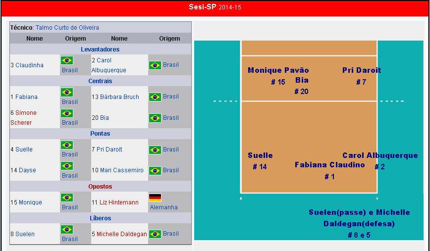 Escalação do time feminino do Sesi-SP, na temporada 2014-15. Print da Wikipédia, nesta versão